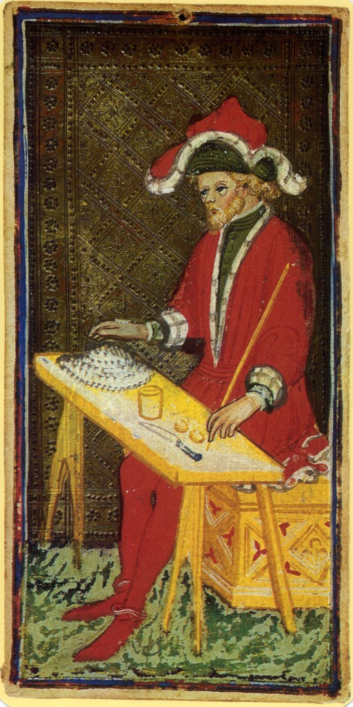 A major arcana card in Visconti Sforza tarot deck, beautifully drawn in the mid XVth century by Italian artist Bonifacio Bembo for the Visconti and Sforza dukes of Milan. Four cards (out of seventy-eight) are lost from the deck (the fifteenth and sixteenth major arcana—respectively the Devil and the Tower—, the Knight of Coins, and the Three of Swords), thus seventy-four cards remain.